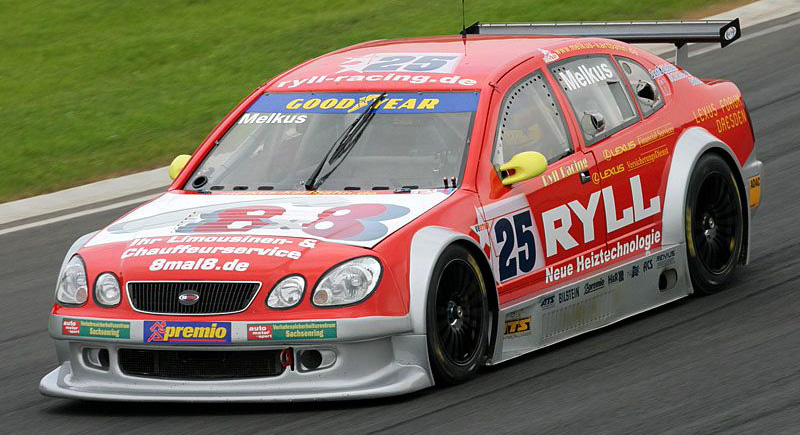 Ronny Melkus, V8-Star on Sachsenring Circuit.